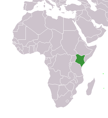 A map of Africa, with Kenya highlighted in Green